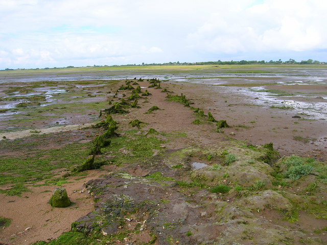 Jetty Remains, Pagham Harbour